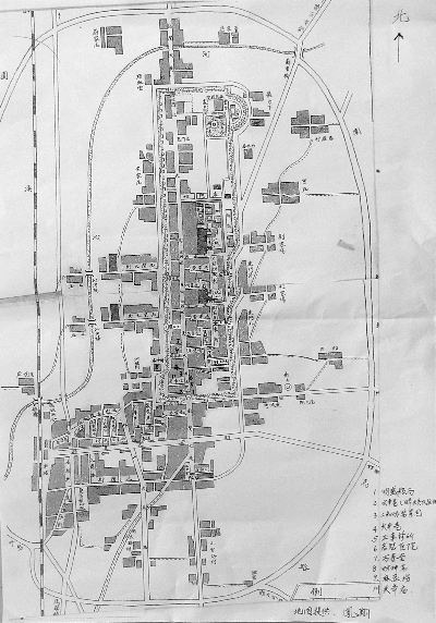 The old city diagram of Handan .